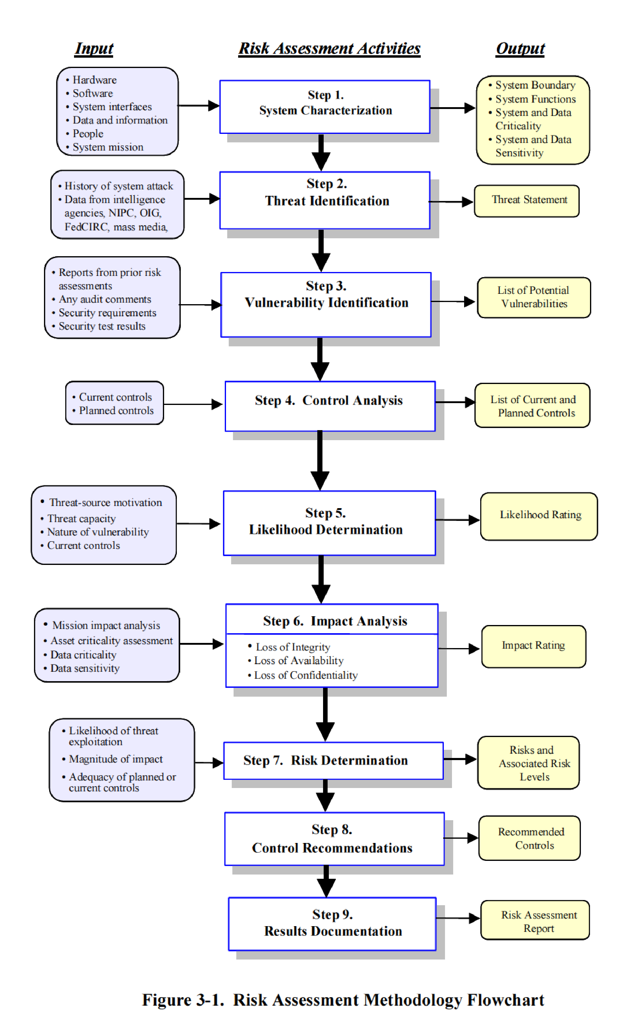 Risk Assessment Methodology Flowchart showing different steps, input and output of this steps